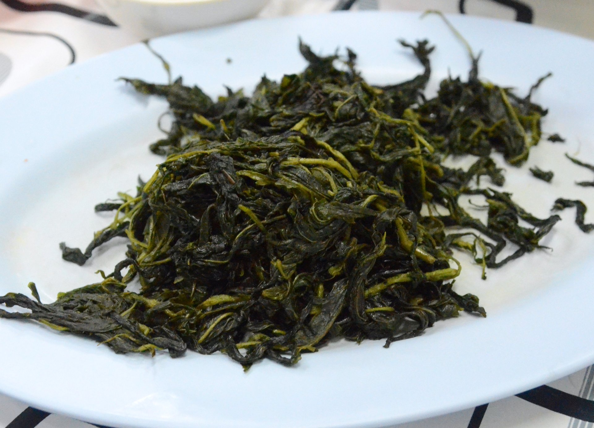 Bai po (Thai script: ใบปอ) are the leaves of the jute plant (Corchorus olitorius, ). They are eaten blanched together with plain rice congee. The taste is similar to that of spinach or samphire.